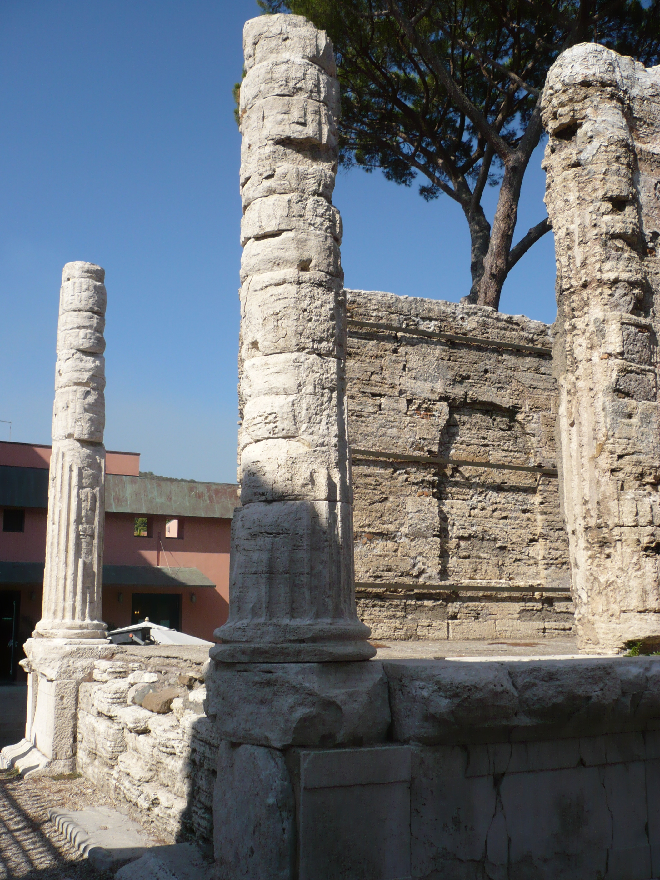 Detail from the Temple of the Sibyl in Tivoli, Italy.